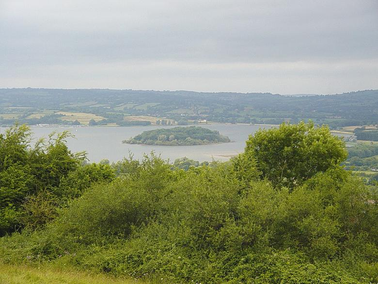 Vista de Chew Valley Lake